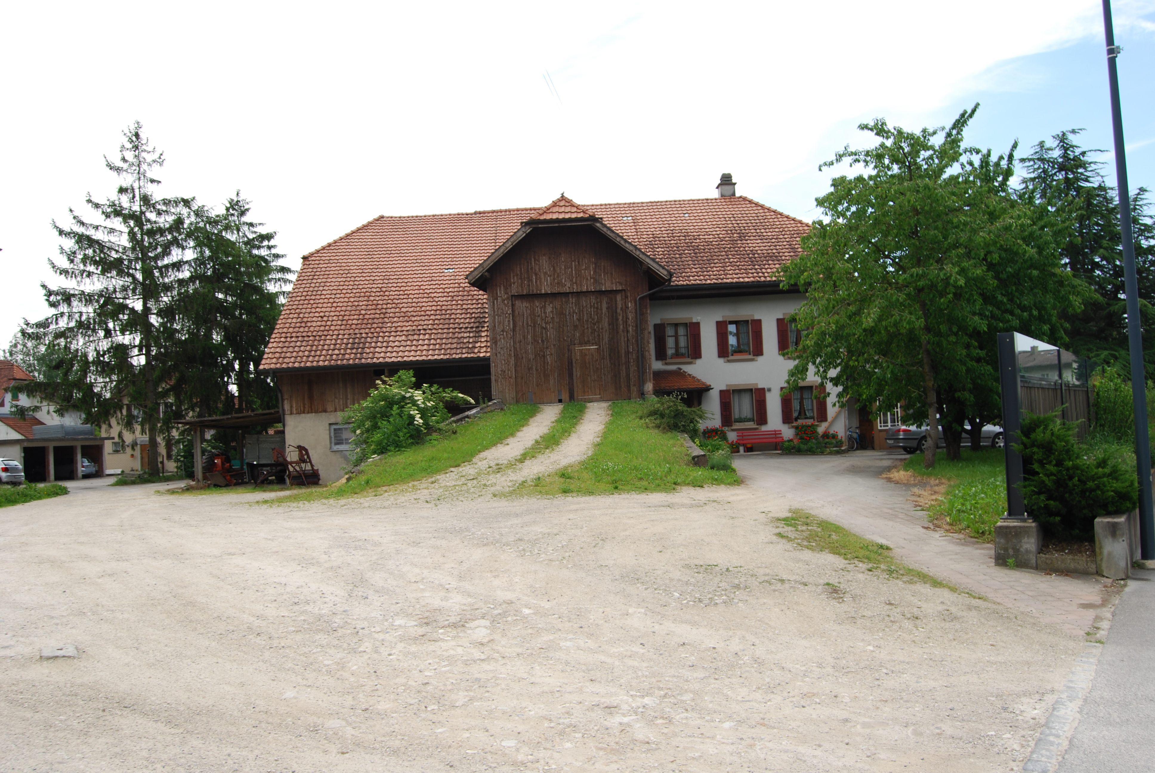 Lengnau, canton of Bern, SwitzerlandEsperanto: Lengnau, Kantono Berno, Svislando